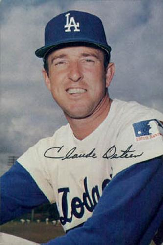 A baseball card of Claude Osteen from the 1971 Ticketron Los Angeles Dodgers set.